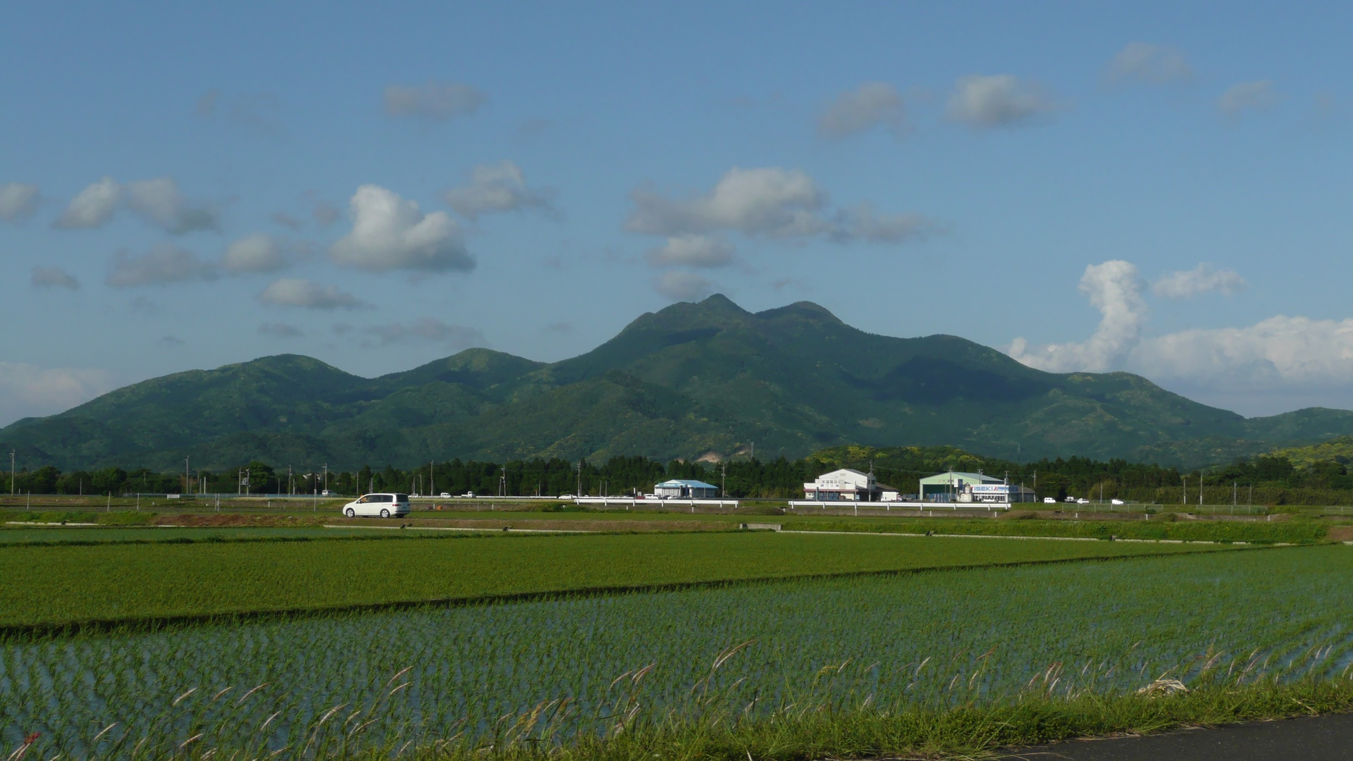 Kinpo zan (Minamisatsuma City, Kagoshima, Japan)